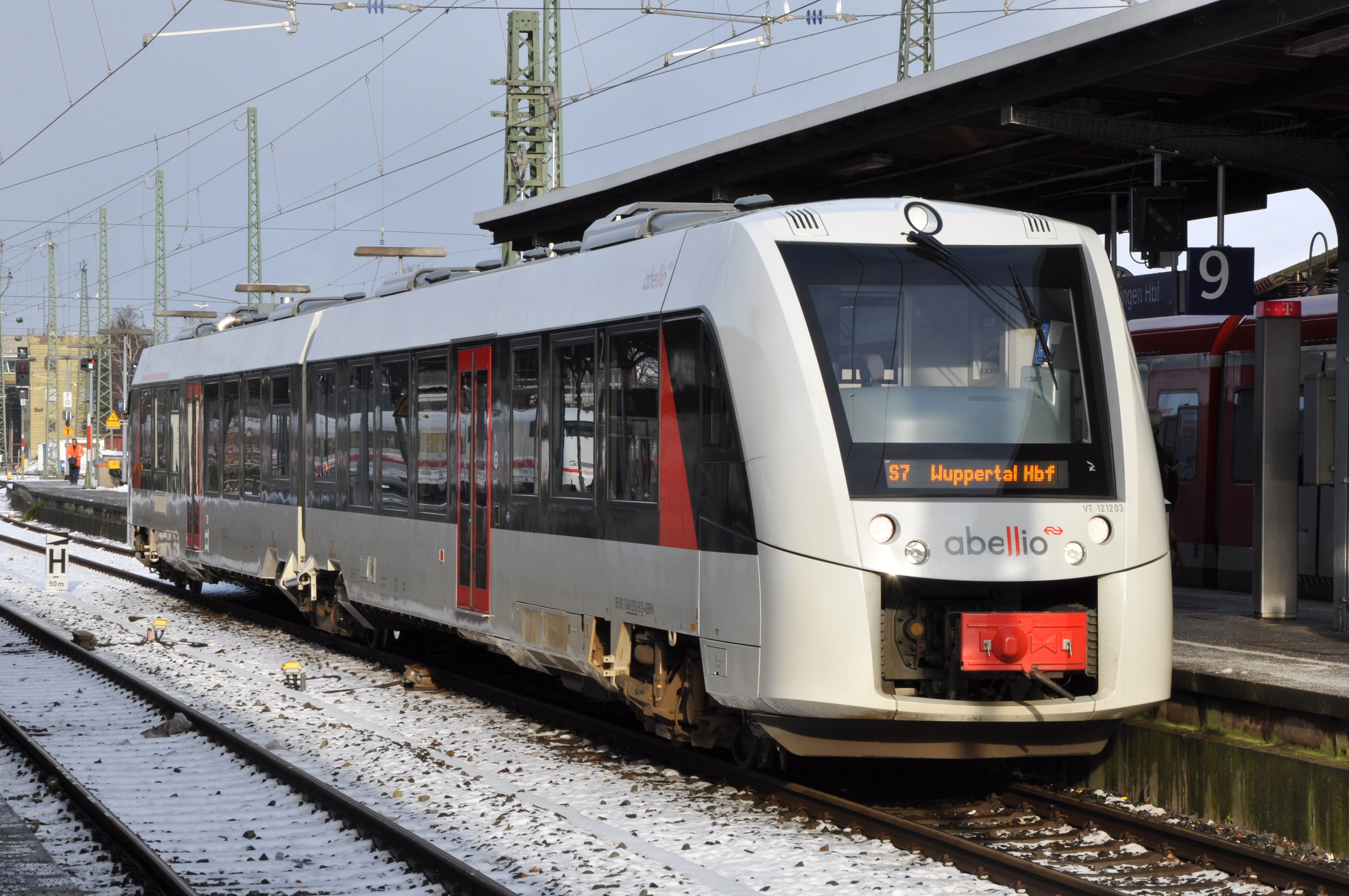 A S7 train of Abellio standing in Solingen Central Station.